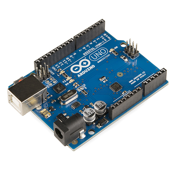 This is the new Arduino Uno R3. In addition to all the features of the previous board, the Uno now uses an ATmega16U2 instead of the 8U2 found on the Uno (or the FTDI found on previous generations). This allows for faster transfer rates and more memory. No drivers needed for Linux or Mac (inf file for Windows is needed and included in the Arduino IDE), and the ability to have the Uno show up as a keyboard, mouse, joystick, etc.